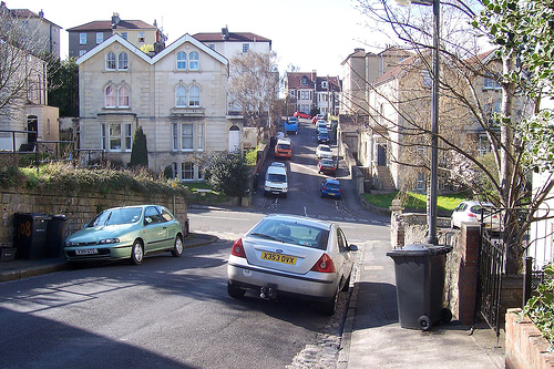 A picture taken in Sydenham Hill, Cotham, Bristol